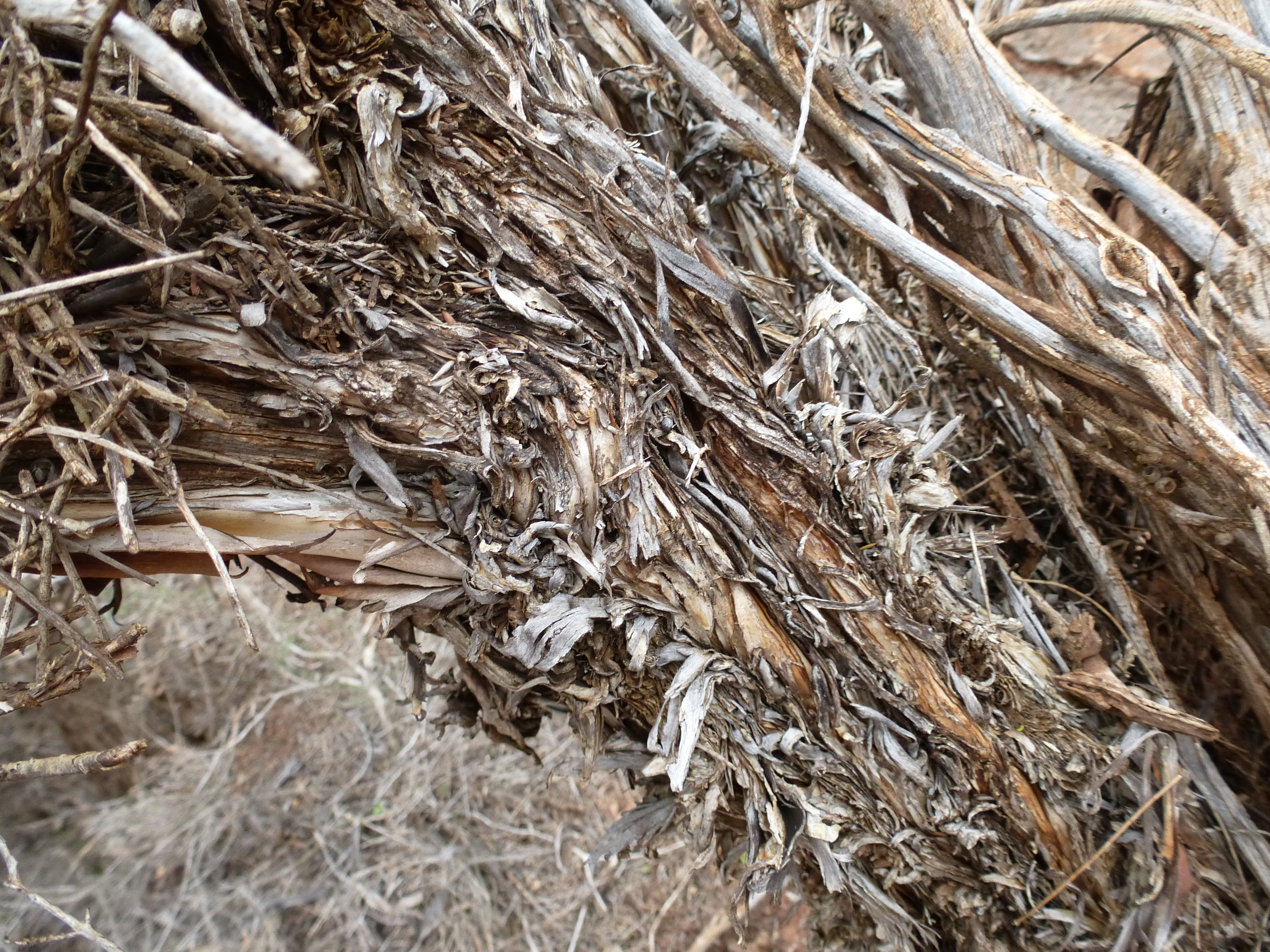 Melaleuca delta at the type location near Wongan Hills